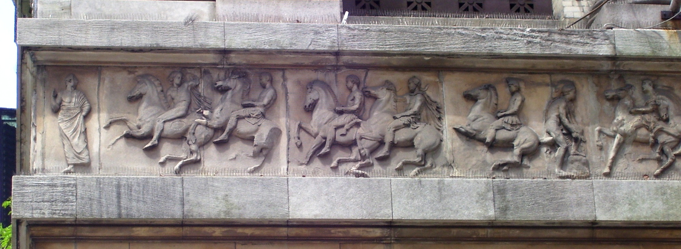 Part of the frieze on the Lexington Avenue side of the building located at 160 Lexington Avenue on the corner of East 30th Street in the Rose Hill neighborhood of Manhattan, New York City. It was originally the New York School of Applied Design for Women, built in 1908-09 and designed by Harvey Wiley Corbett in neo-Roman style. It became the Pratt-New York Phoenix School of Design, and is currently (2011) the Lexington Avenue Campus of Tuoro College -- although the building has "Building for Sale of Long-Term Lease" signs on it. (Source: AIA Guide to NYC (4th ed.))